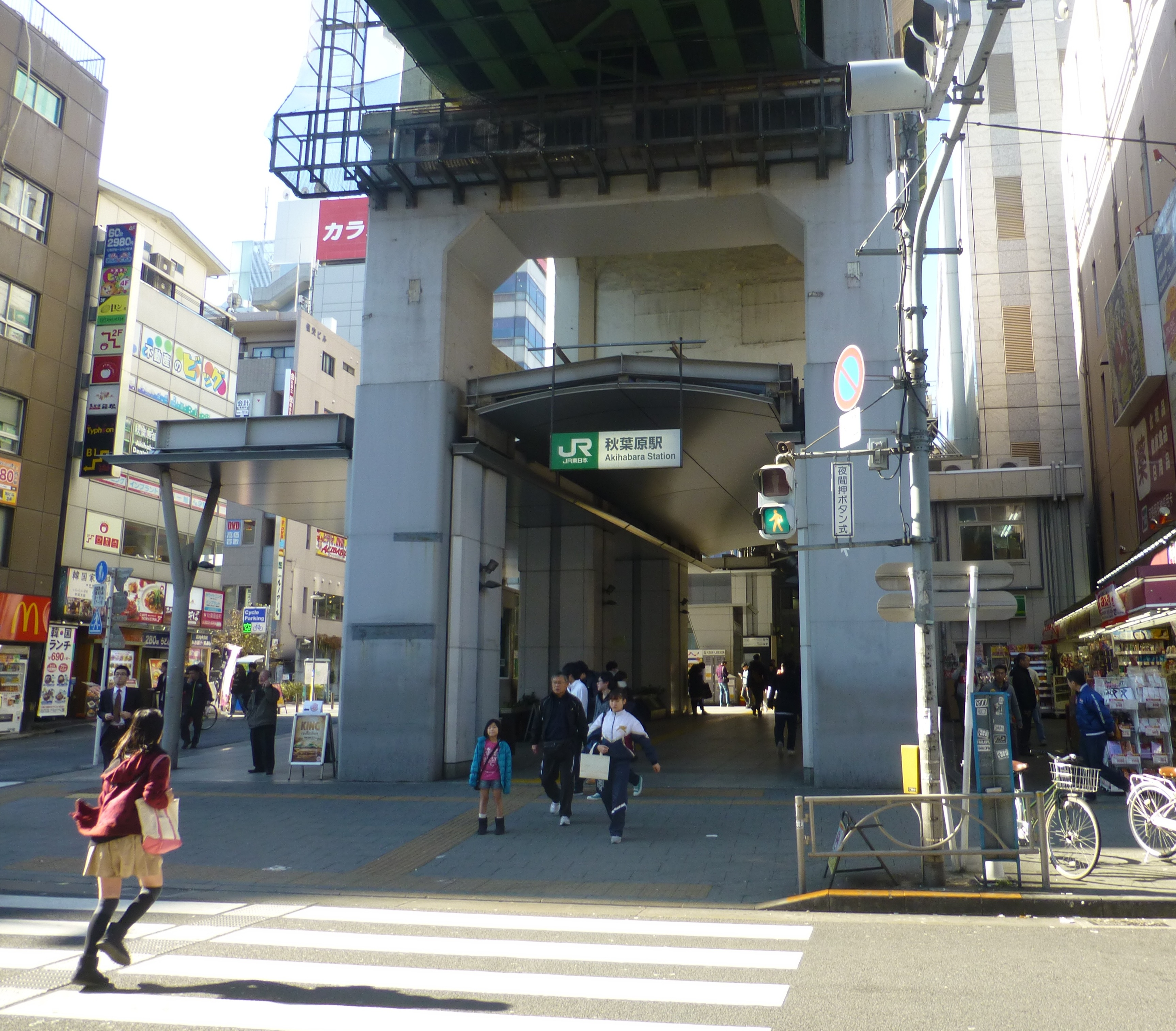 Akihabara Station Showadori entrance